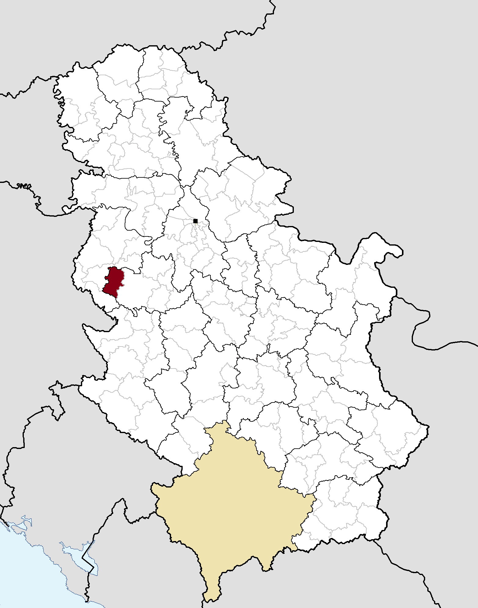 Municipal location in Serbia